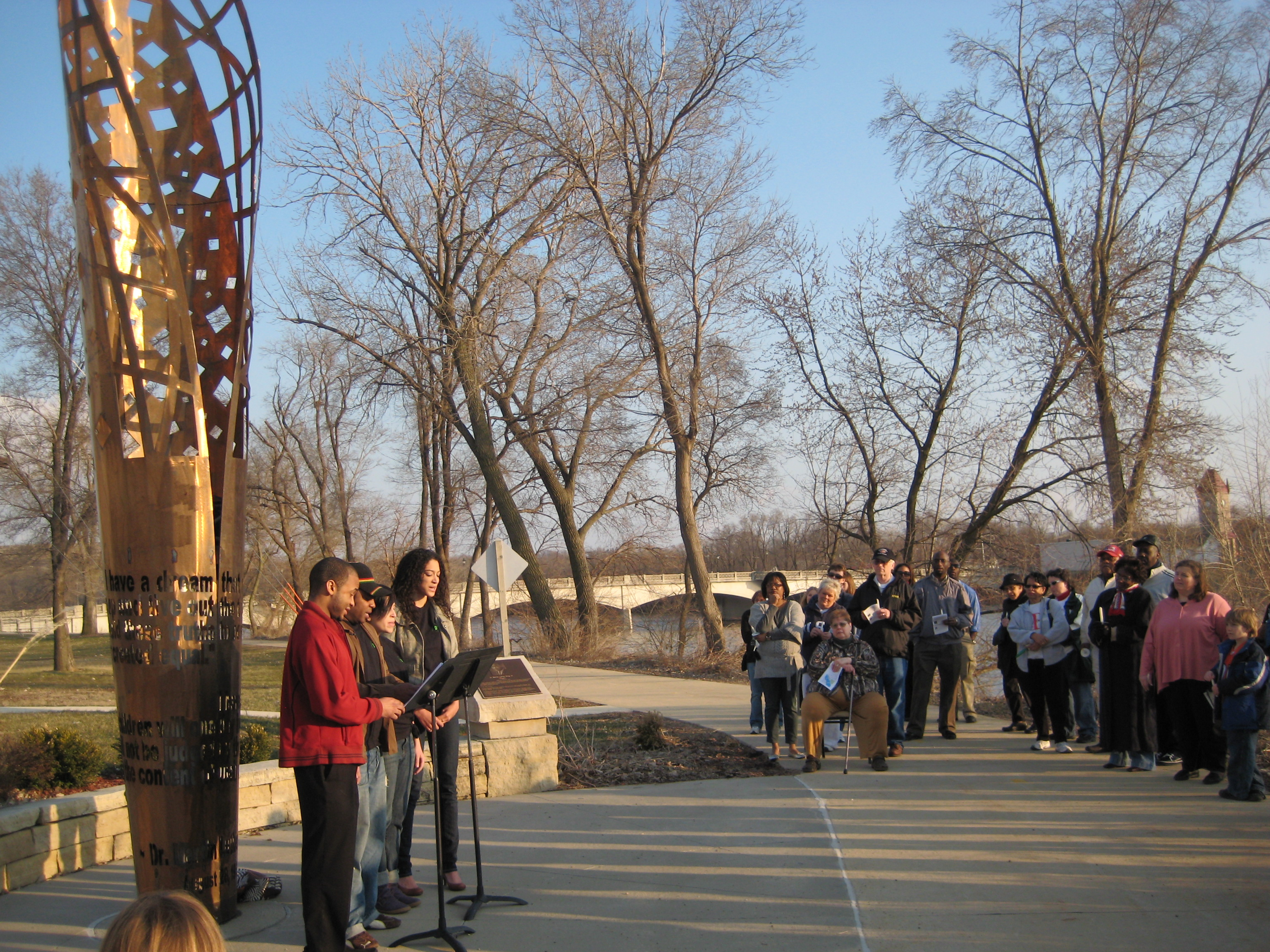 Community members perform at the unveiling of the 'Trumpet' memorial art piece at the African American Museum of Iowa